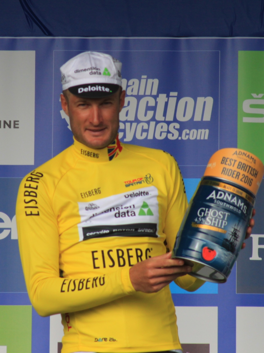 Steve Cummings is presented with some Adnams Ghost Ship beer, his prize for being the best British rider in the 2016 Tour of Britain.